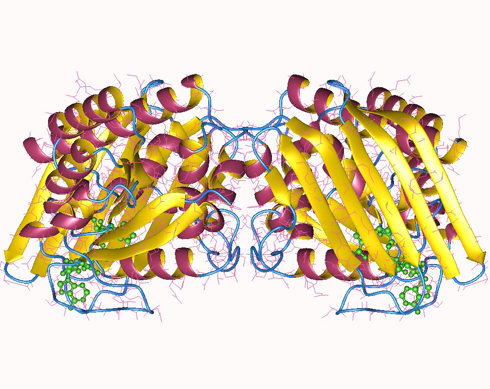 Biliverdin reductase A homodimer + 2 NADP (green), Human